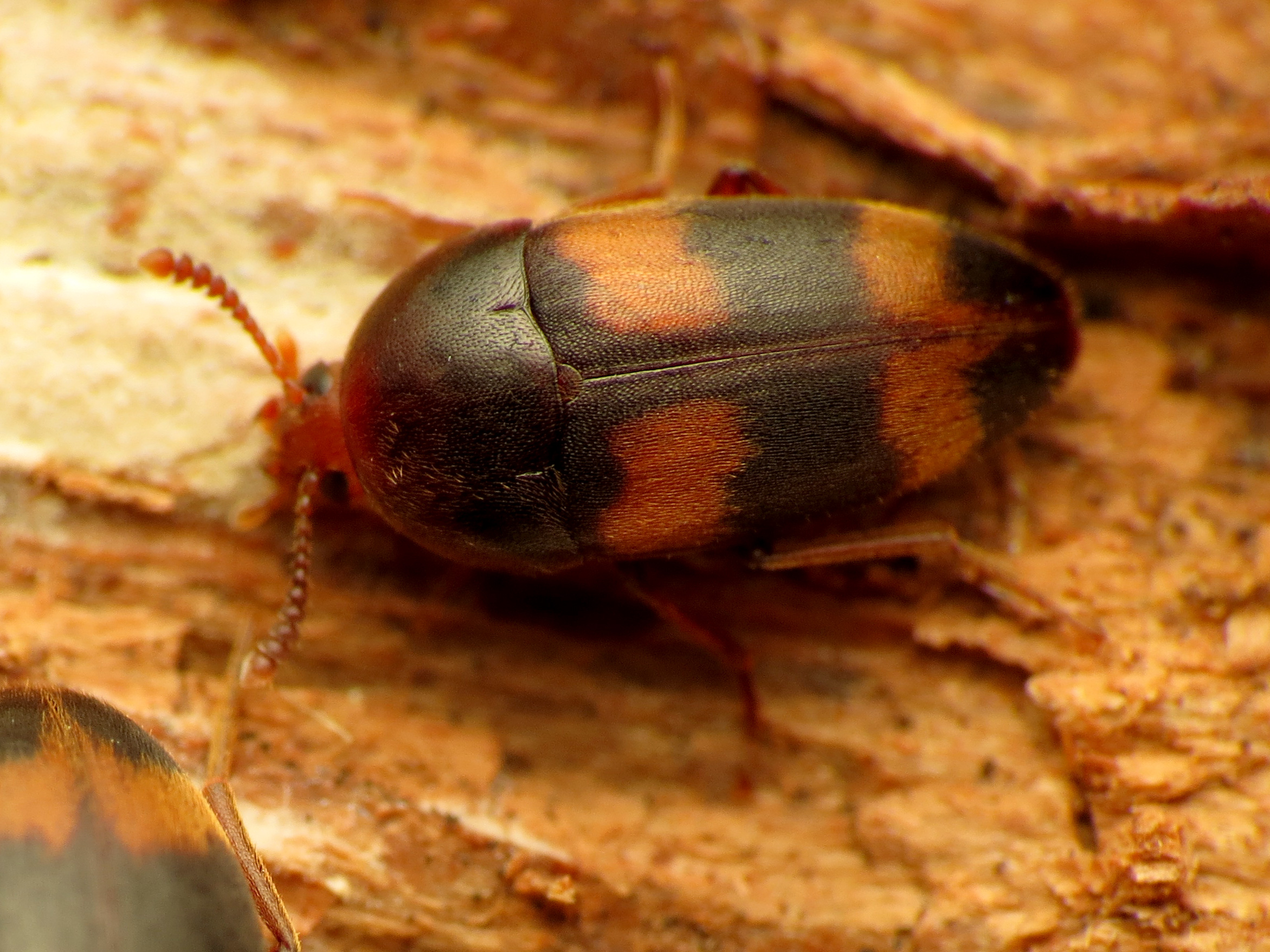 Holostrophus bifasciatus. Rock Creek Park, Washington, DC, USA